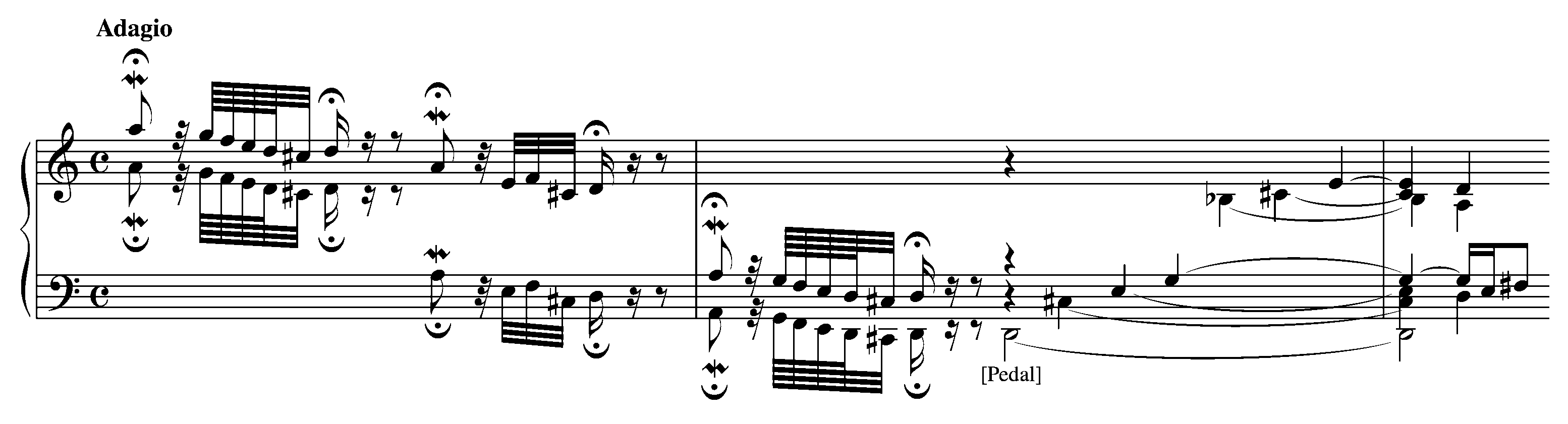 Toccata and Fugue in D minor, BWV 565 by Johann Sebastian Bach, opening bars